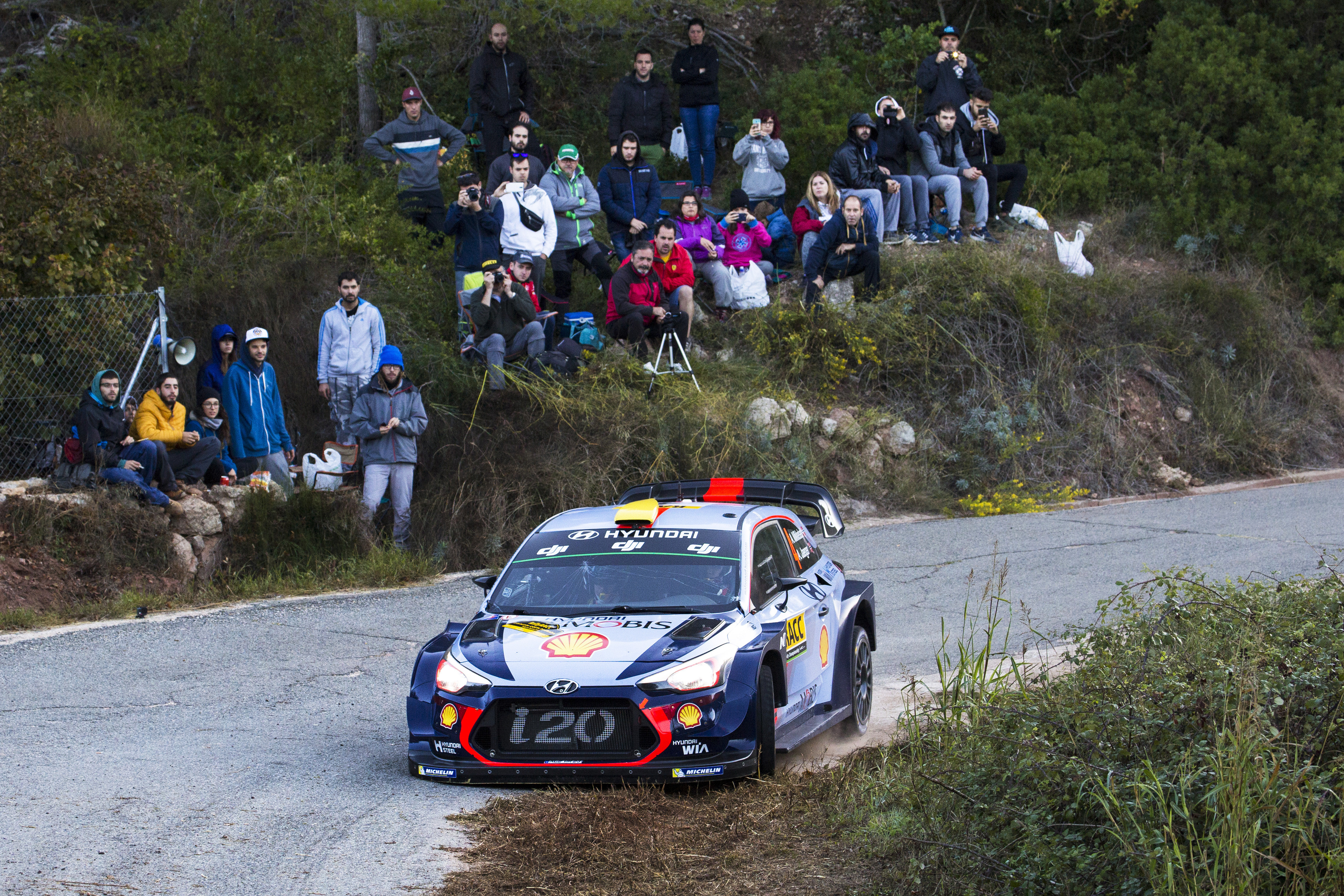 2017 FIA World Rally Championship Round 11, Rally de España 02-08 October 2017 Day 3 Action Andreas Mikkelsen, Anders Jaeger, Hyundai i20 Coupe WRC Photographer: Helena El Mokni Worldwide copyright: Hyundai Motorsport GmbH